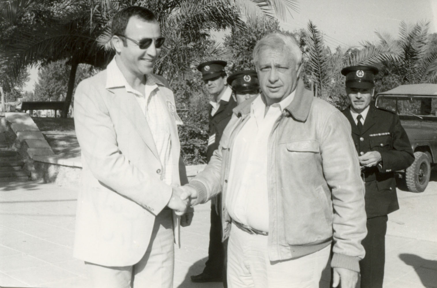 Kiryat Gat, People of Israel